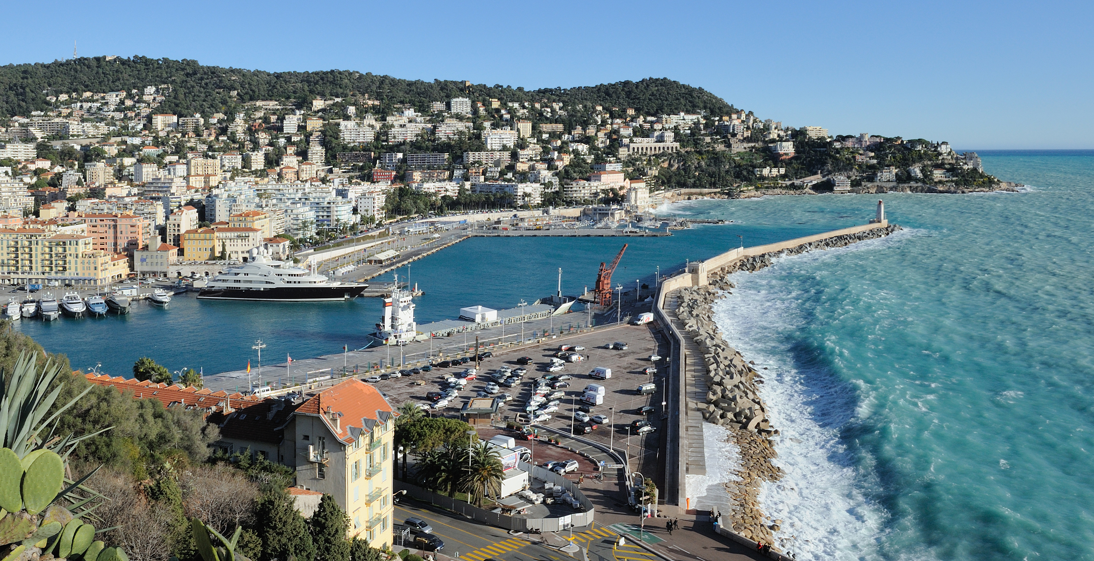 Nice: entrance to the harbour.